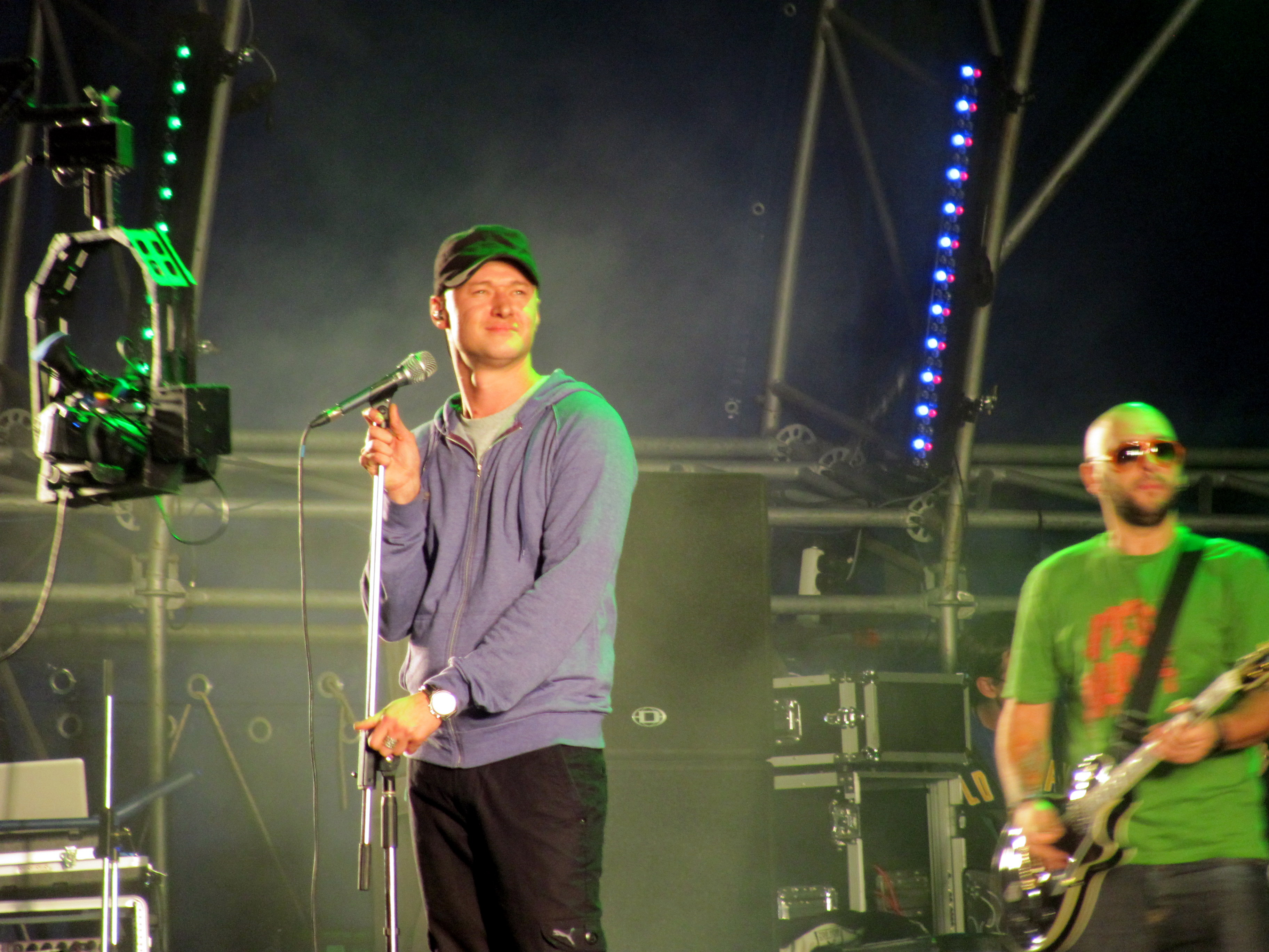 Ukrainian funky groove band Boombox